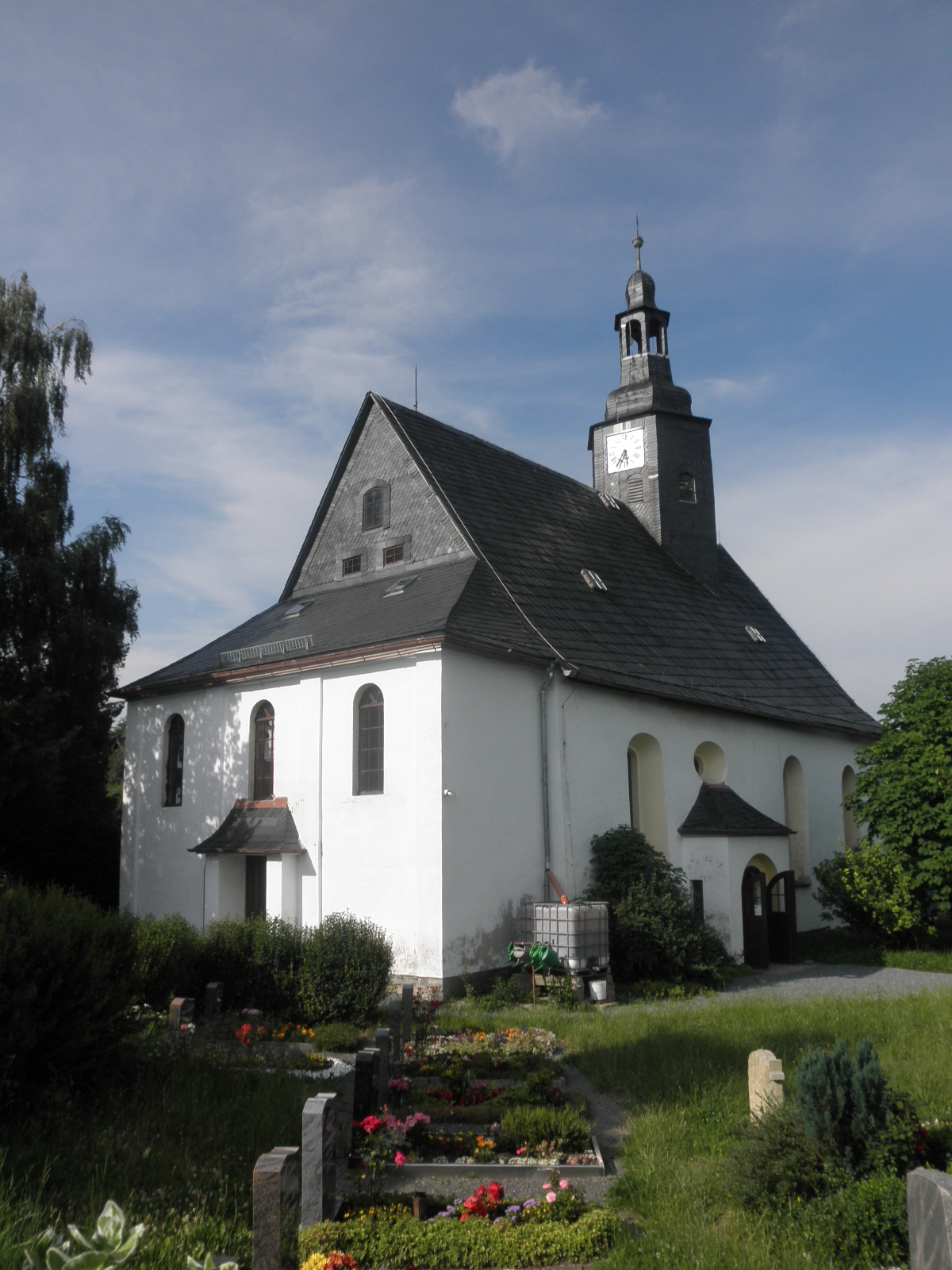 Church in Nitschareuth in Thuringia